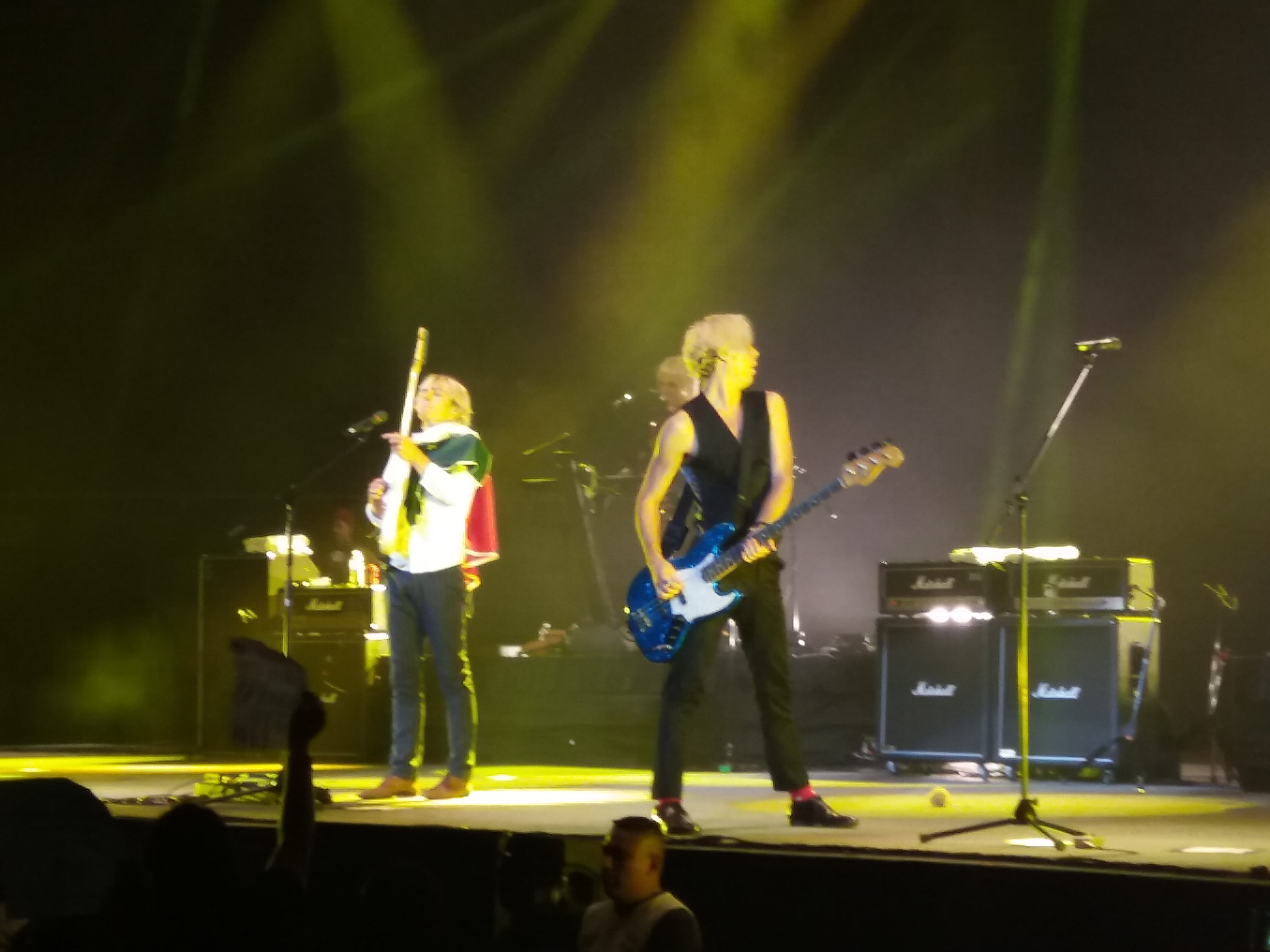 R5 on New Addictions Tour in Arena Monterrey, Monterrey, Mexico (8/10/2017).